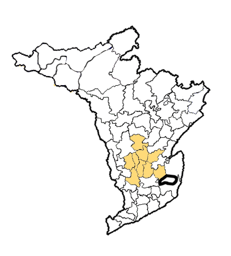 Ramachandrapuram revenue division in East Godavari district